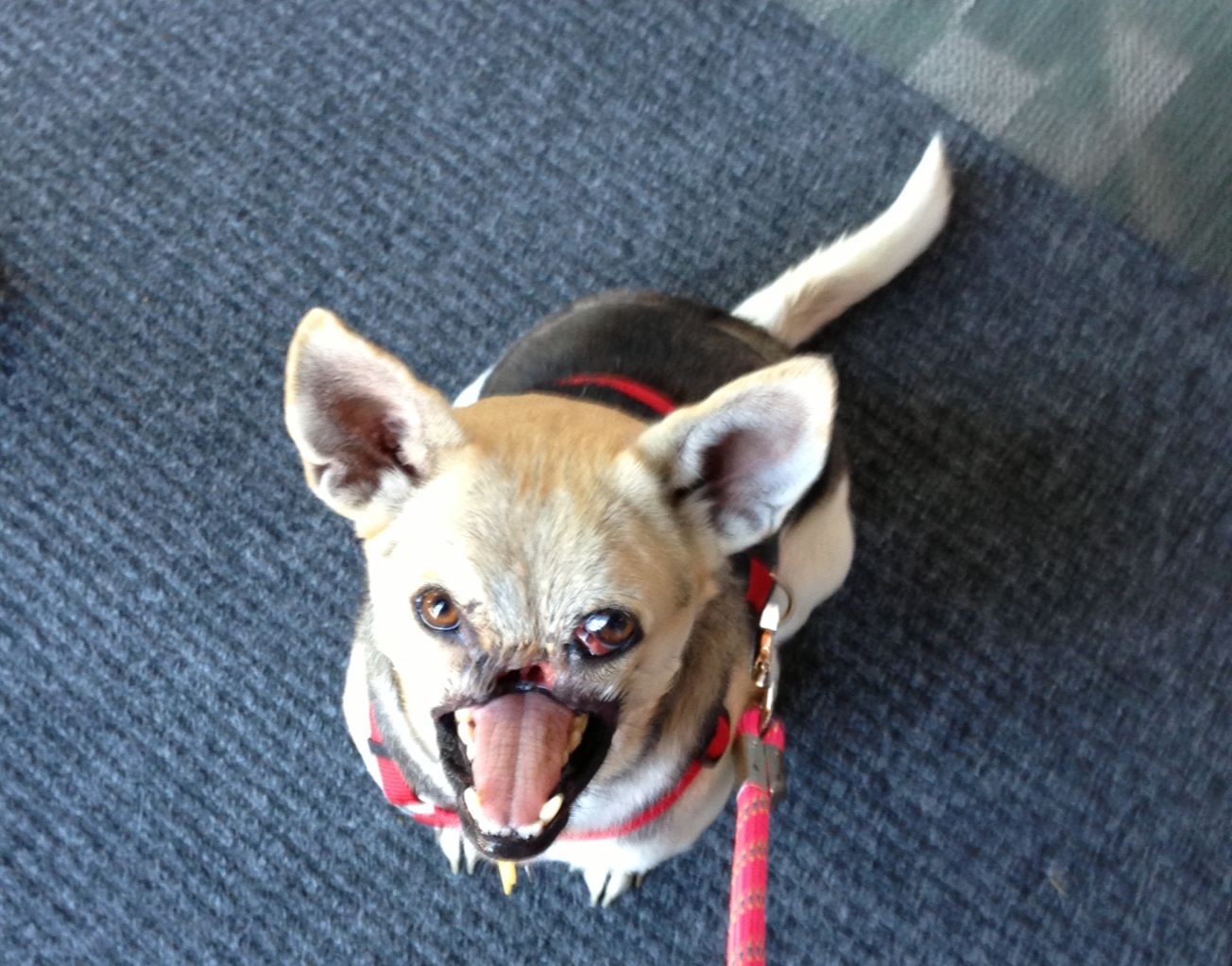 Hero dog Kabang ready to go back to Philippines after surgeries and treatments